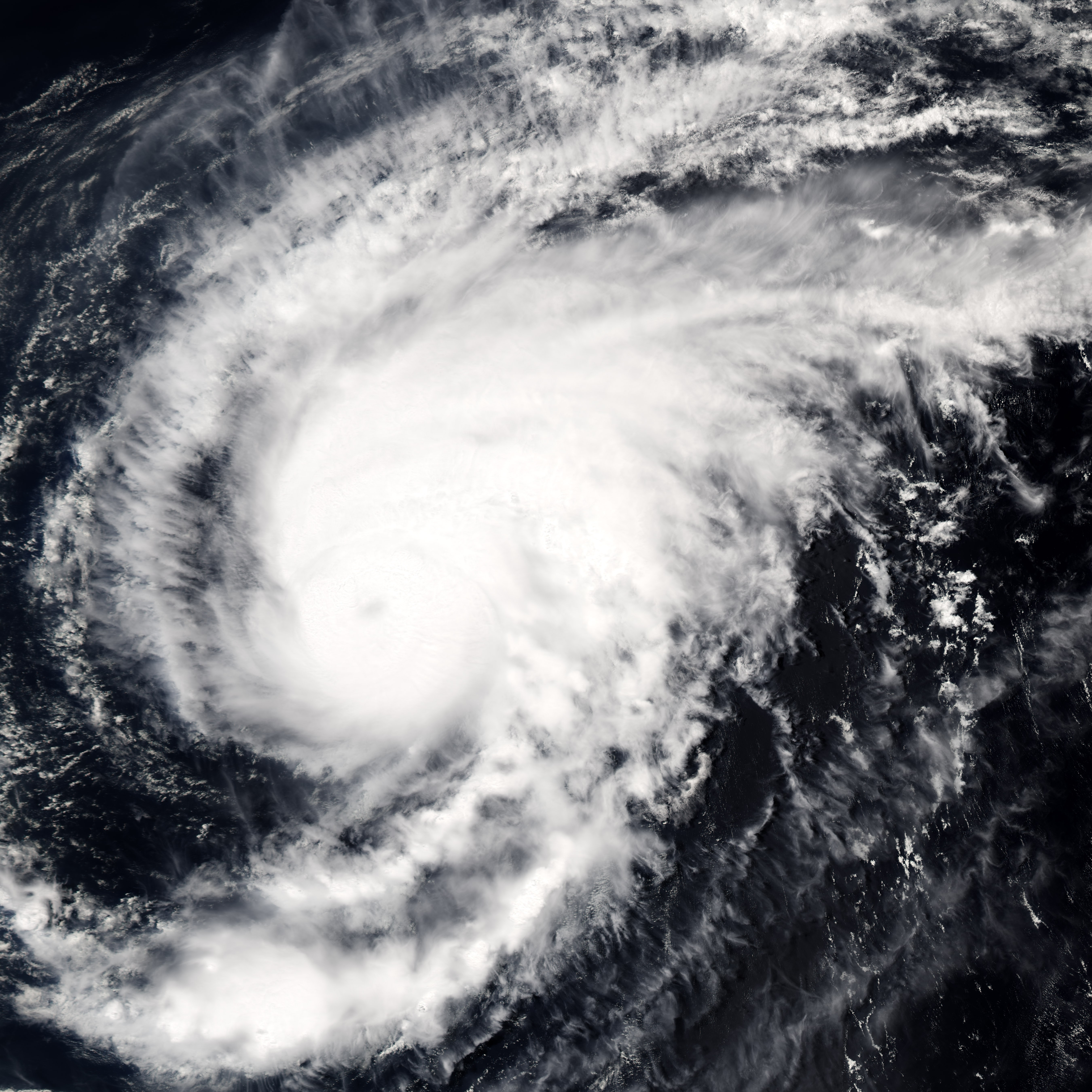 Typhoon Sonca was just beginning to weaken on April 25, 2005, when the Moderate Resolution Imaging Spectroradiometer (MODIS) on NASA’s Aqua satellite captured this image of the storm. Sonca is spinning across the Philippine Sea, heading towards Iwo Jima island south of Japan’s main island, Honshu. At the time this image was taken at 04:10 UTC, the storm’s winds were slowing from 213 kilometers per hour (132 mph) with gusts to 259 kph (161 mph) to 204 kph (127 mph) with gusts to 250 kph (155 mph). An eye is barely visible as a circular smudge in the center of the storm. The storm is predicted to continue to weaken.